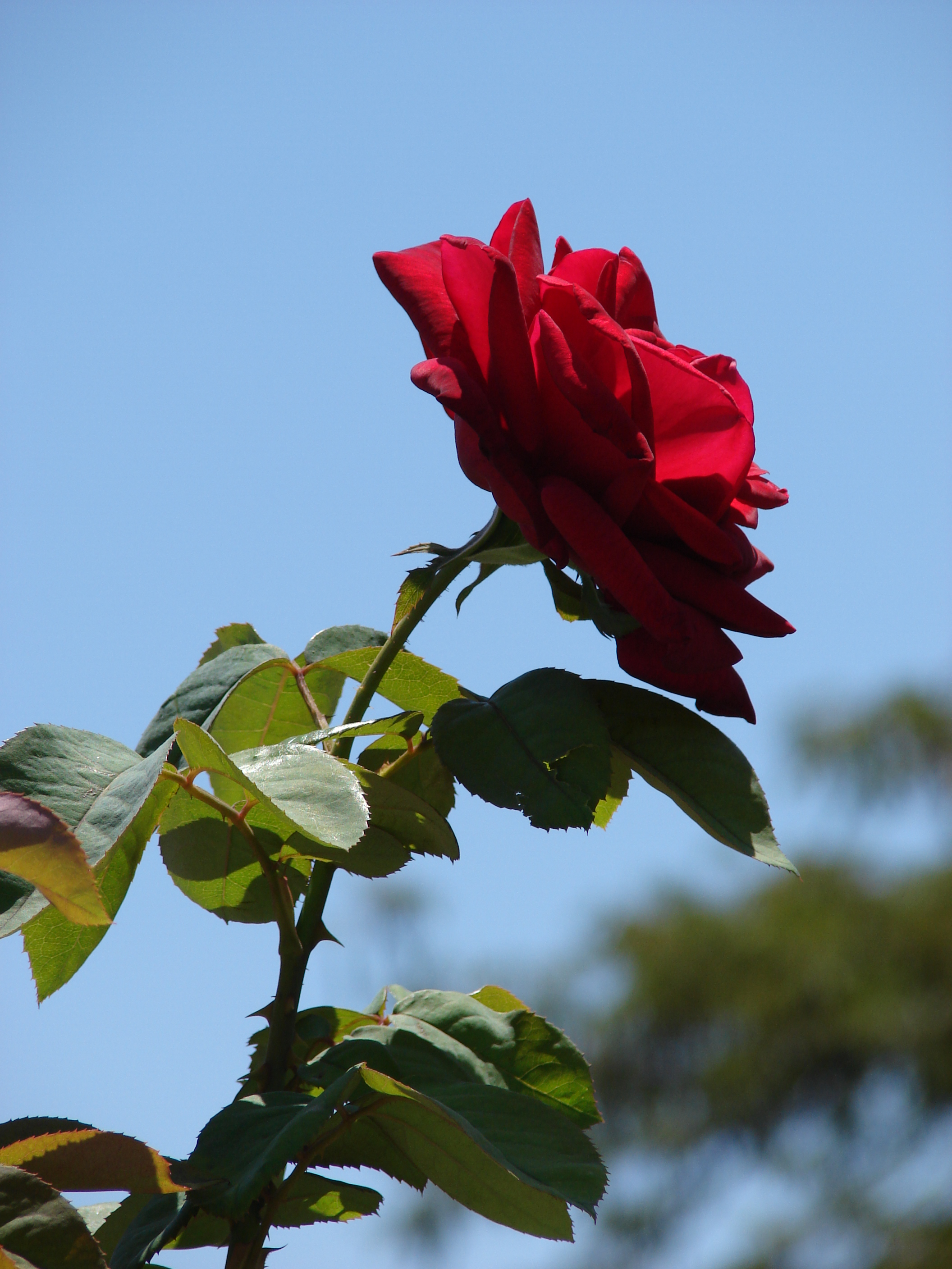 Rosa sp. (flower). Location: Lanai, Hulopoe